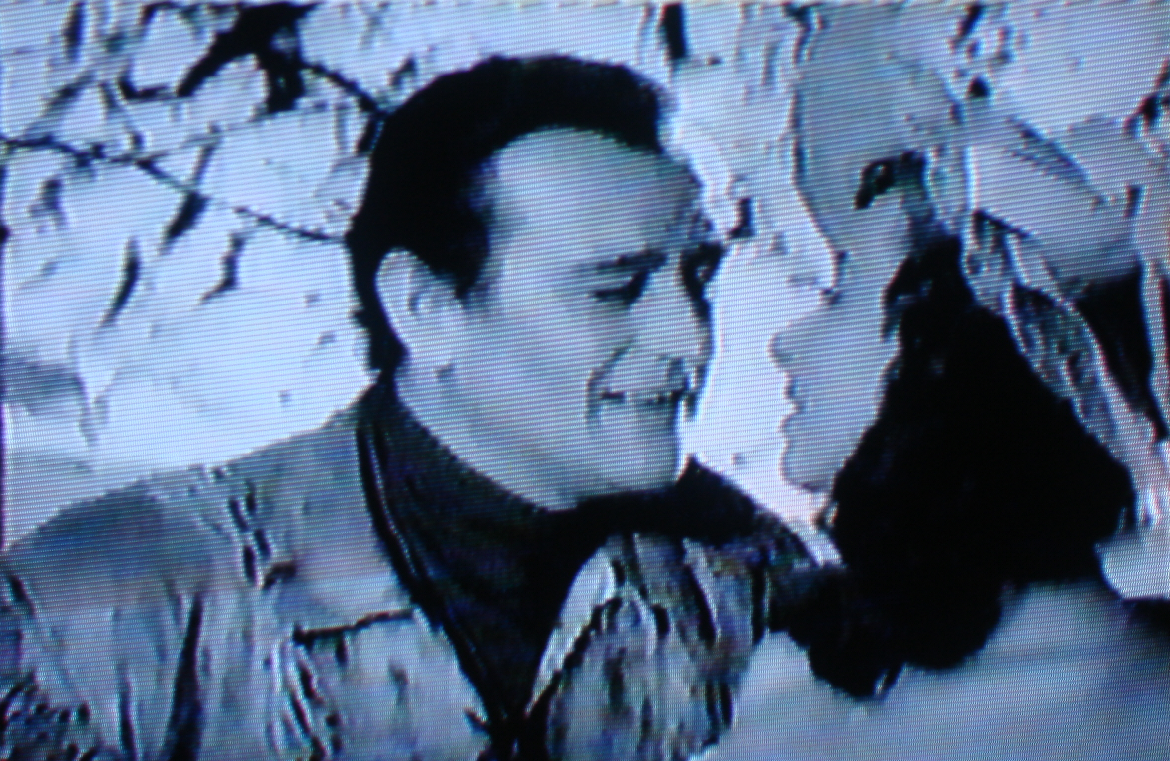 Cropped screenshot from the Trailer The Fighting Kentuckian (1949), John Wayne, Vera Ralston